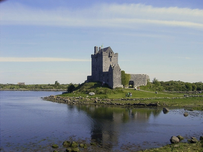 Dunguaire Castle in Ireland